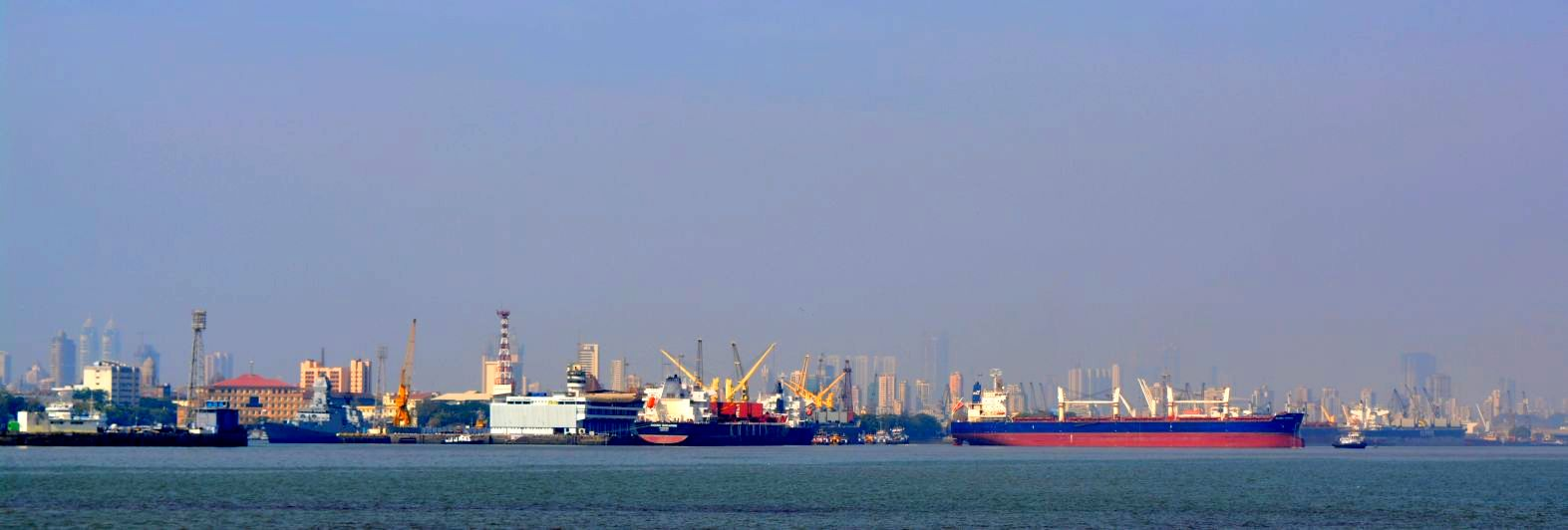 Mumbai Dock